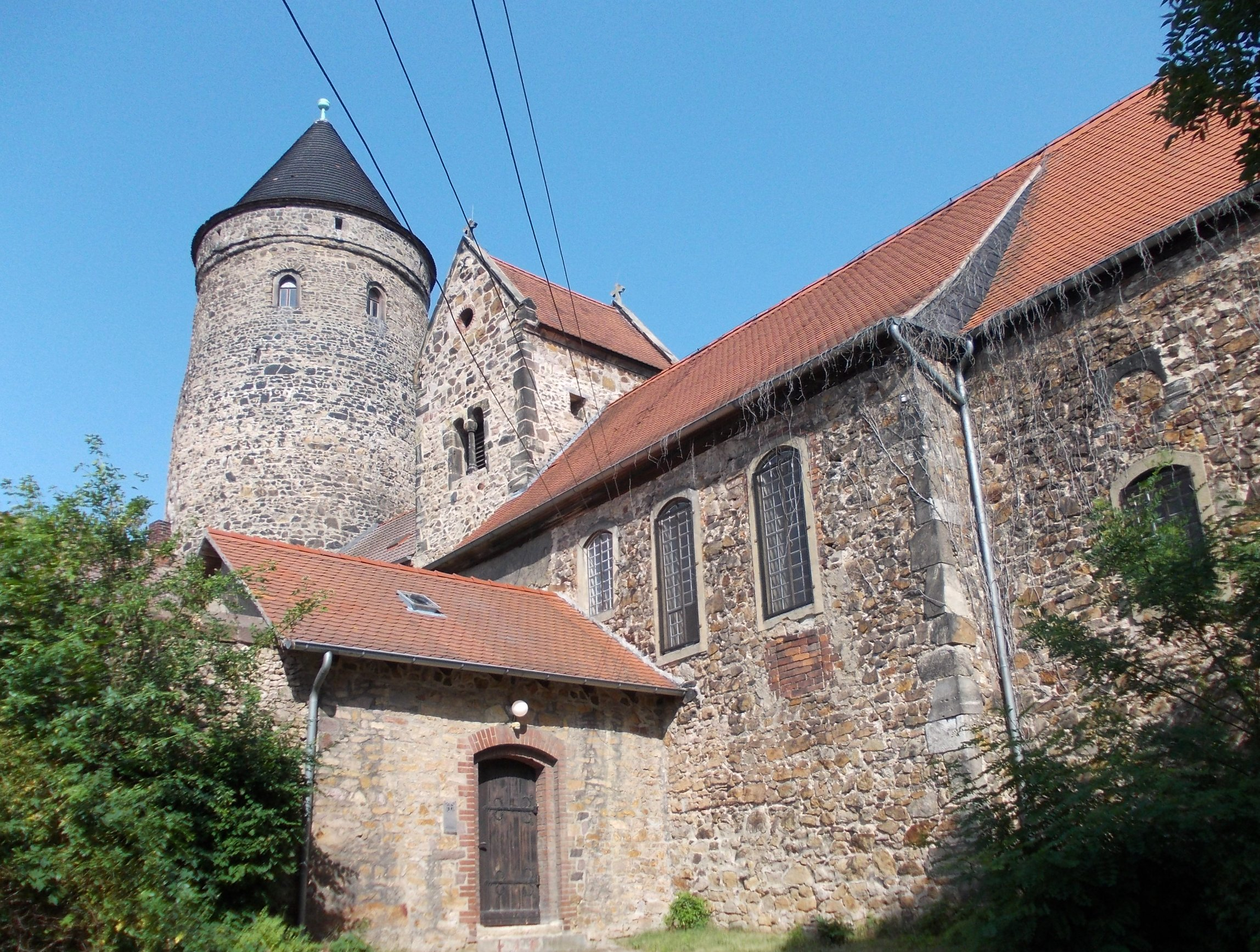 Martin Luther Church in Hohenthurm (Landsberg, district: Saalekreis, Saxony-Anhalt)